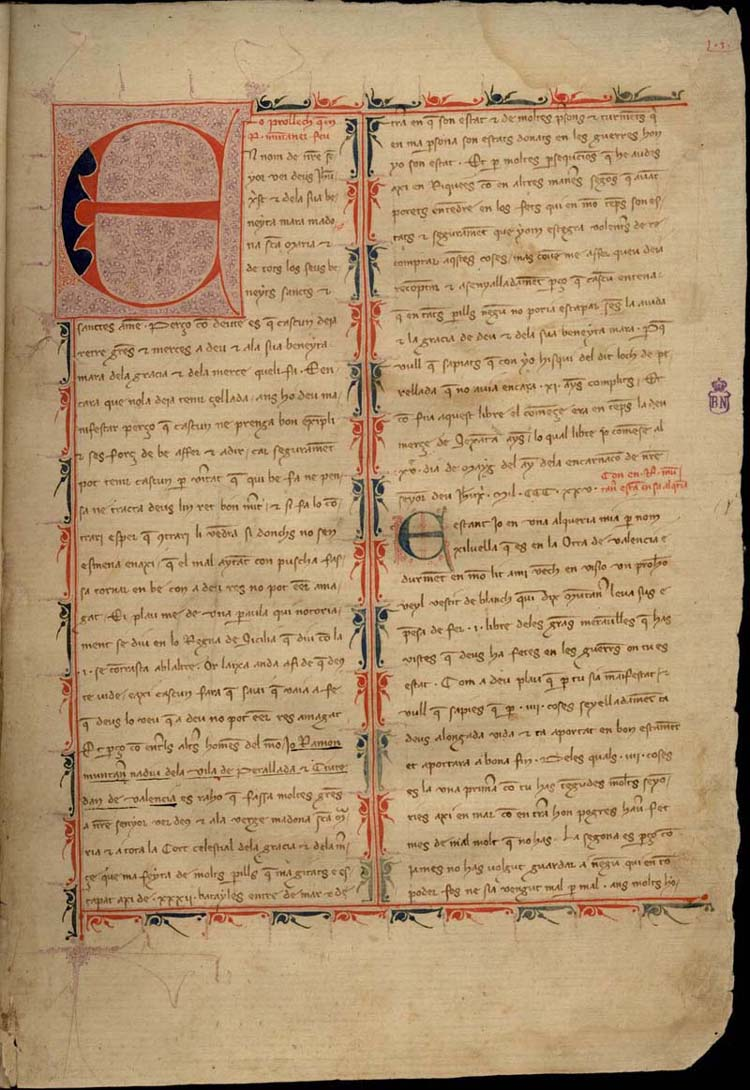 Ramon muntaner in his own alqueria